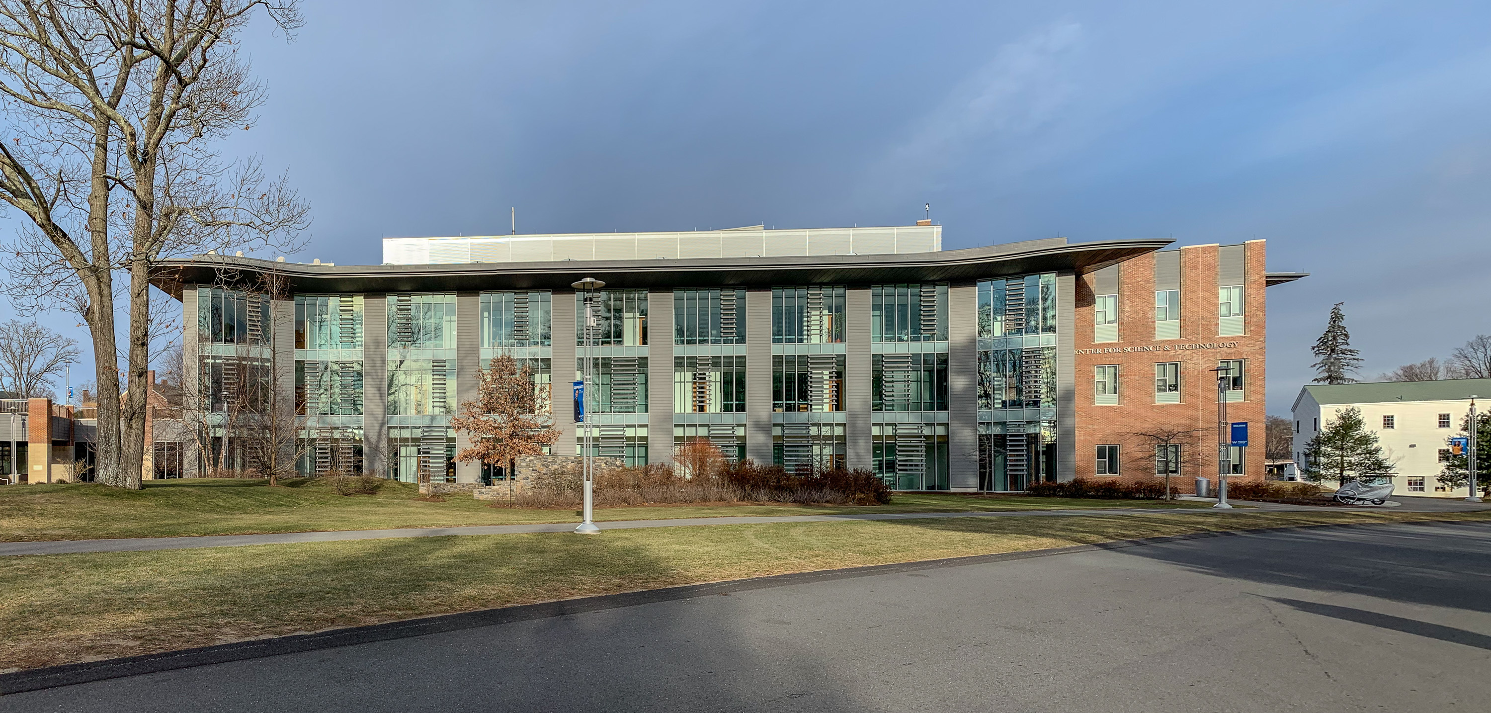 Mars Center for Science and Technology at Wheaton College, Norton Massachusetts. EYP Architects, 2011. Stitched from three exposures.